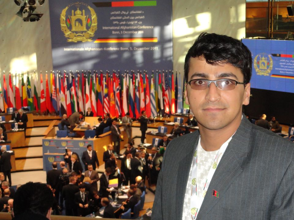 Dr. Mohammad Shafiq Hamdam at International Bonn Conference on Afghanistan